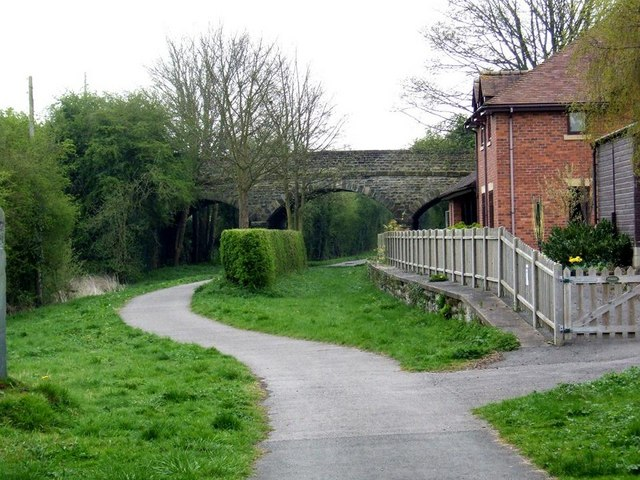 Tonge Station The Midland Railway Ashby and Breedon Branch closed in 1982 and is now part of the Cloud Trail. Tonge Station is now a private house.